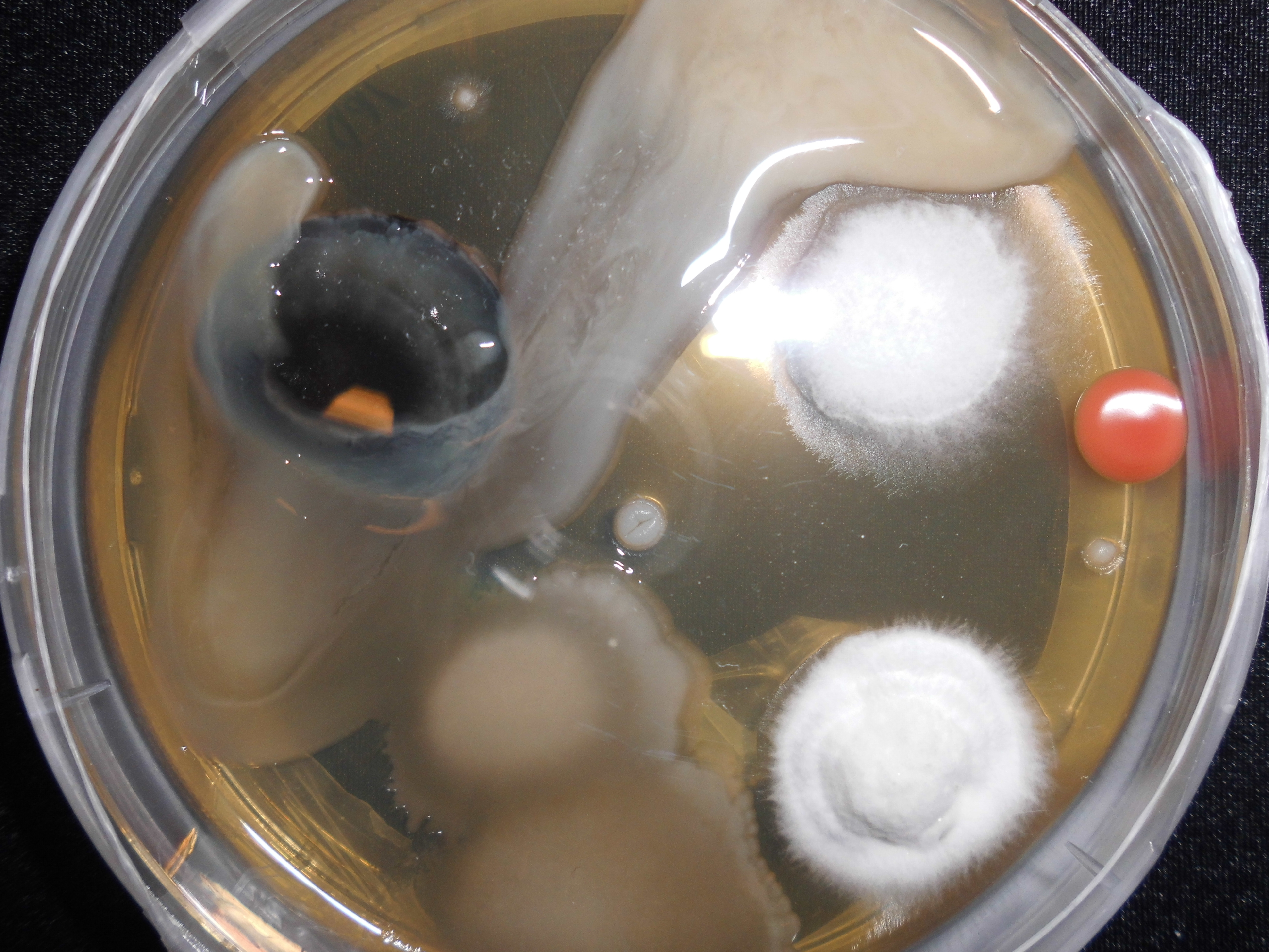 Contamination on an agar plate to show how important it is to work sterile